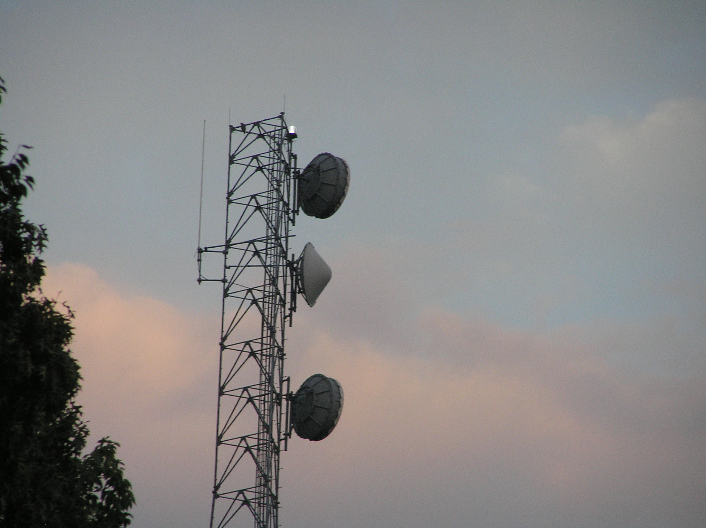 A sunset shot of a radio tower flashing its white strobe in Upper Freehold Township, NJ. OM&L: FCC Paragraphs A1, H